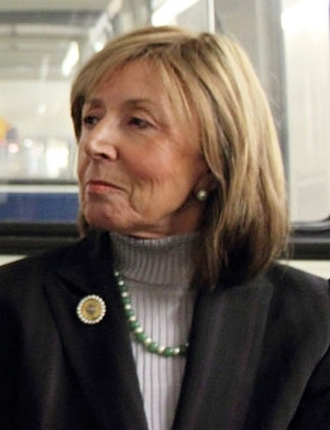 2011 State of the Union